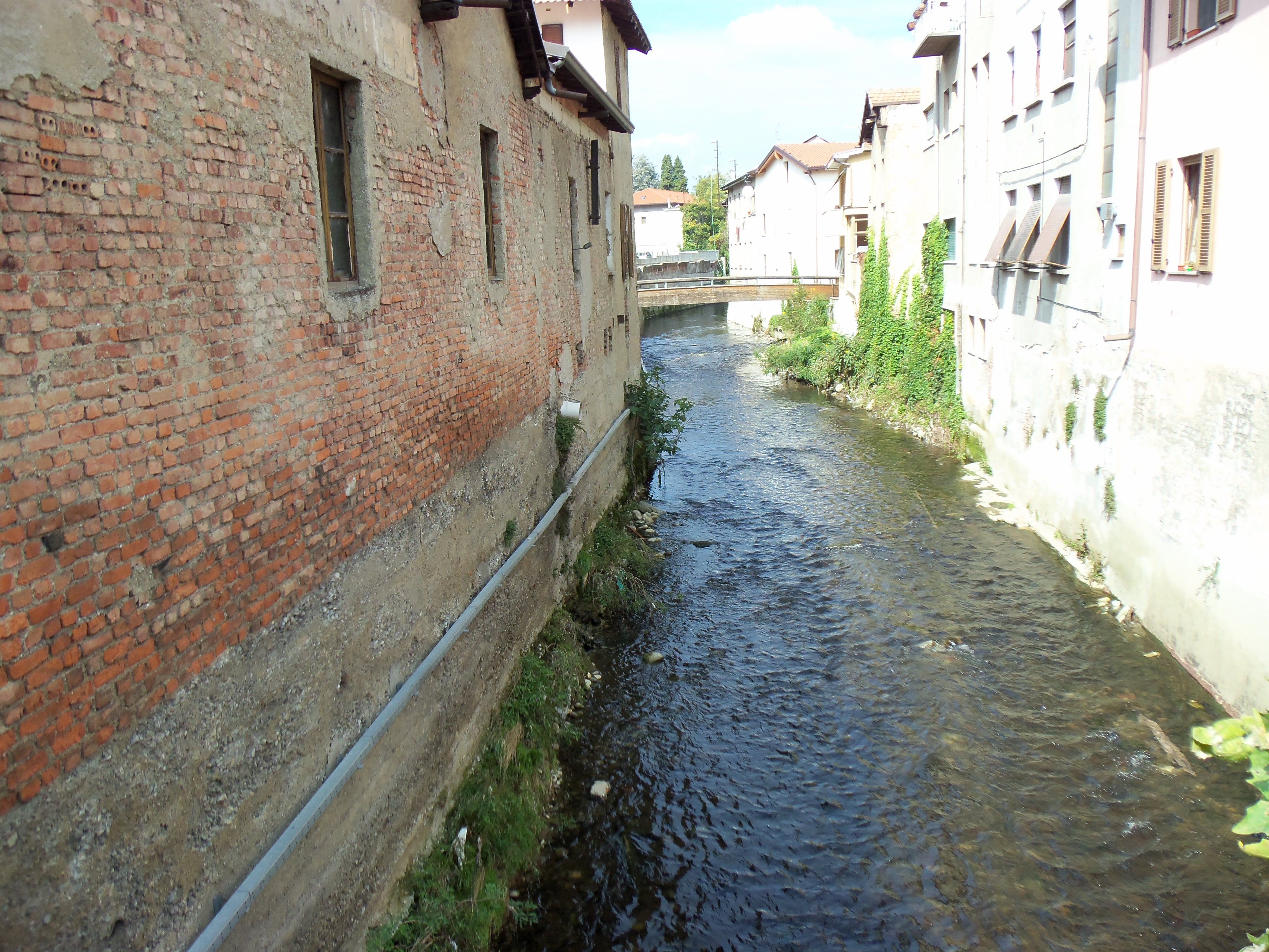 The houses banking the river in Seveso